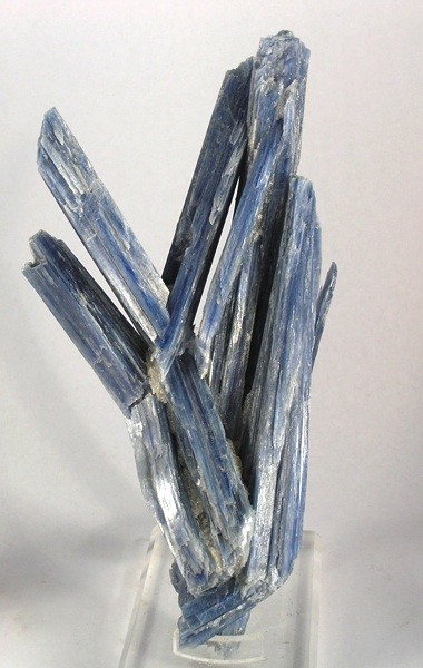 Kyanite Locality: São José da Safira, Doce valley, Minas Gerais, Southeast Region, Brazil (Locality at ) Size: 22.1 x 11.2 x 5.1 cm. Kyanite is generally seen as rather dull and opaque crystals embedded in quartz. This, however, is a huge cluster of giant, freestanding, translucent crystals, with gorgeous sky-blue color! The crystals measure up to 14 cm in length! Most of the terminations are intact, as well (they have the typical rough terminations you see on these). There is a wonderful surface luster on these - they really shine.